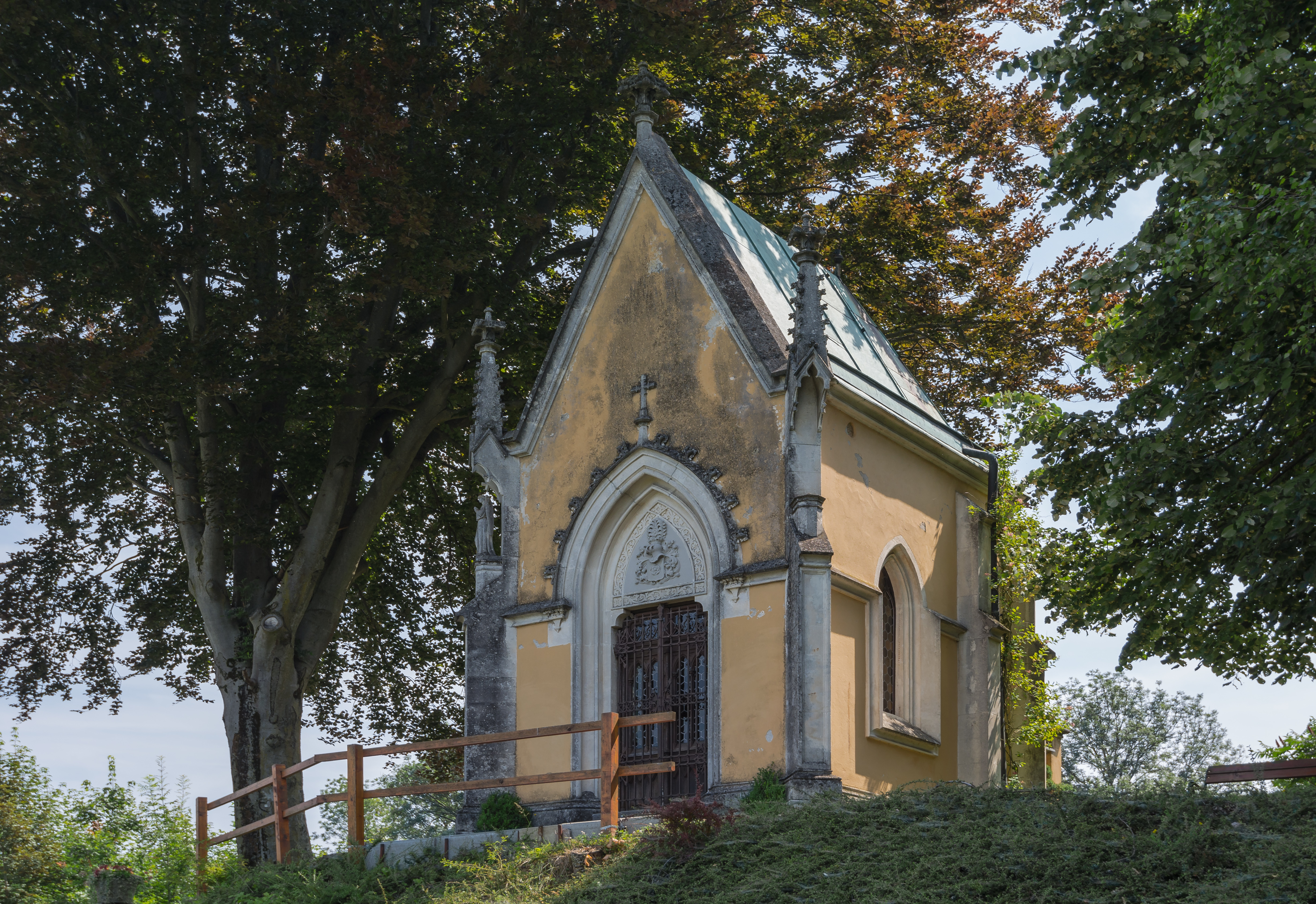 The burial chapel in Mellach was built in 1889 for the owners of castle Weissenegg. The burial vault is not in use anymore.